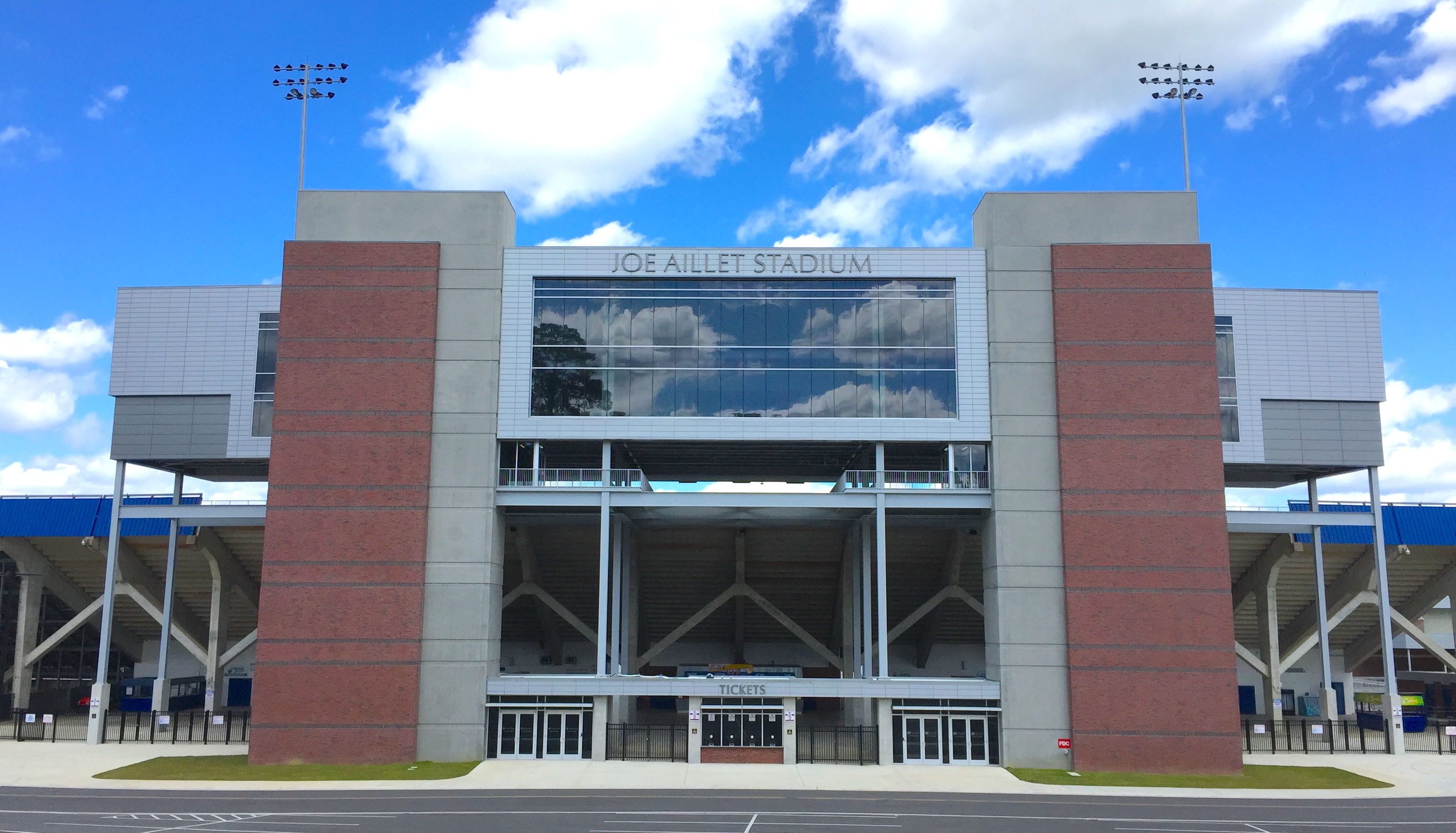 This is a photo I took of the new press box and suites structure of Joe Aillet Stadium on the campus of Louisiana Tech University.